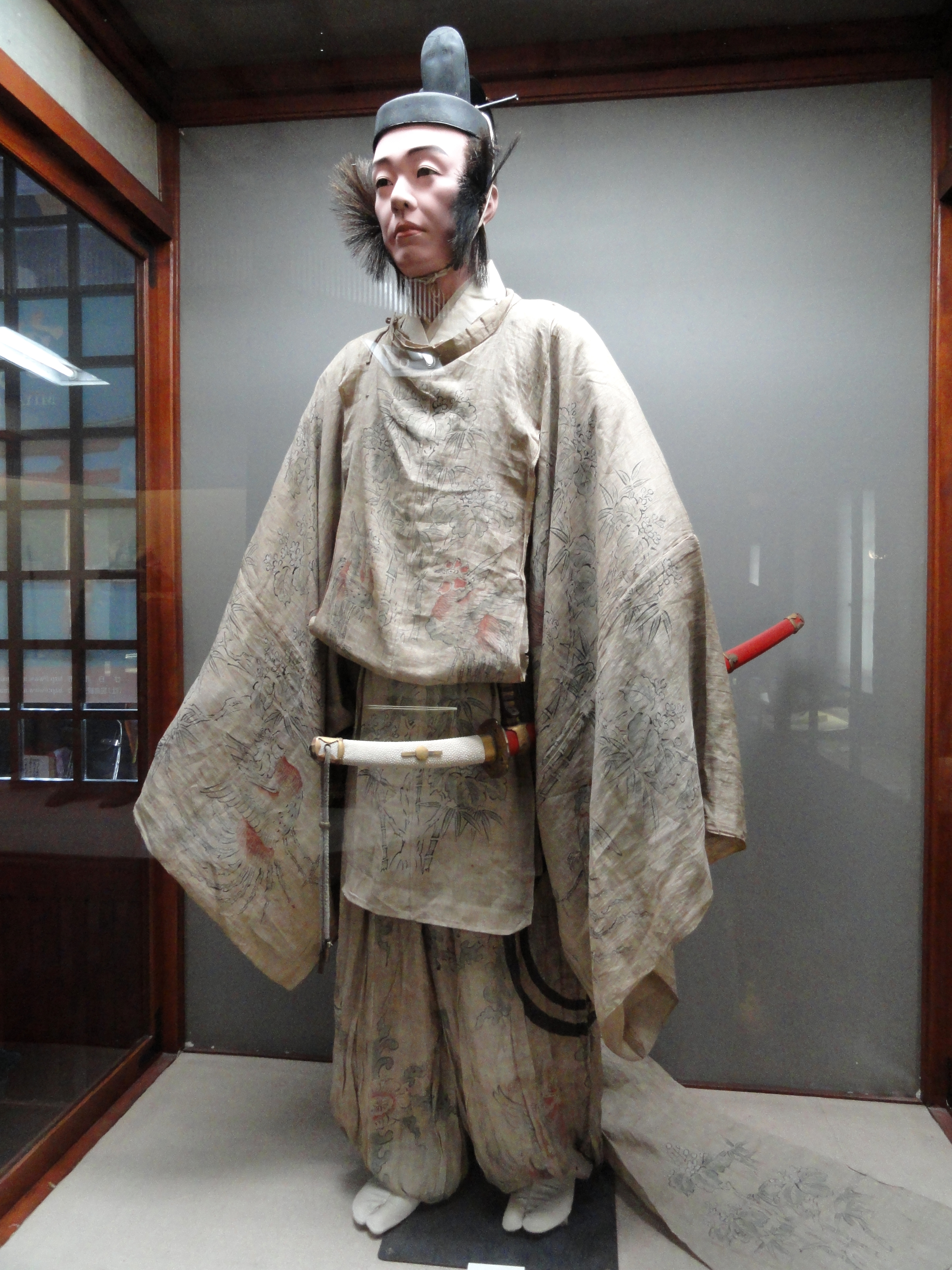 Exhibit in the Treasure Hall, Itsukushima Shinto Shrine, Miyajima-cho, Hatsukaichi-shi, Hiroshima-ken, Japan. All items in the Treasure Hall are old enough to be in the public domain. Photography was permitted of this object, without restriction on its use.